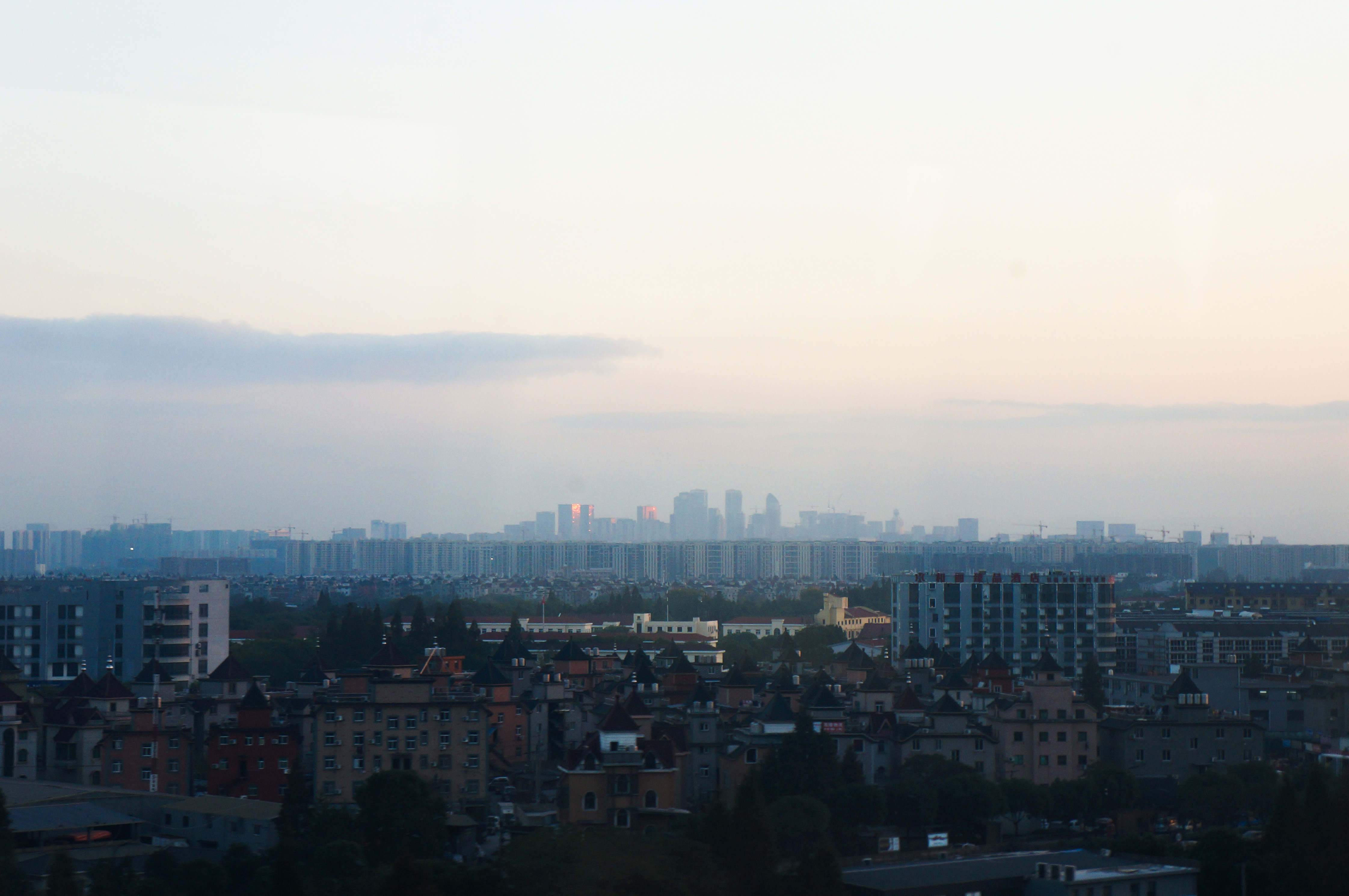 201611 City Landscape of Hangzhou. Photo taken in Jianqiao, Pengbu for middle-range, Qianjiang New Town in the background.